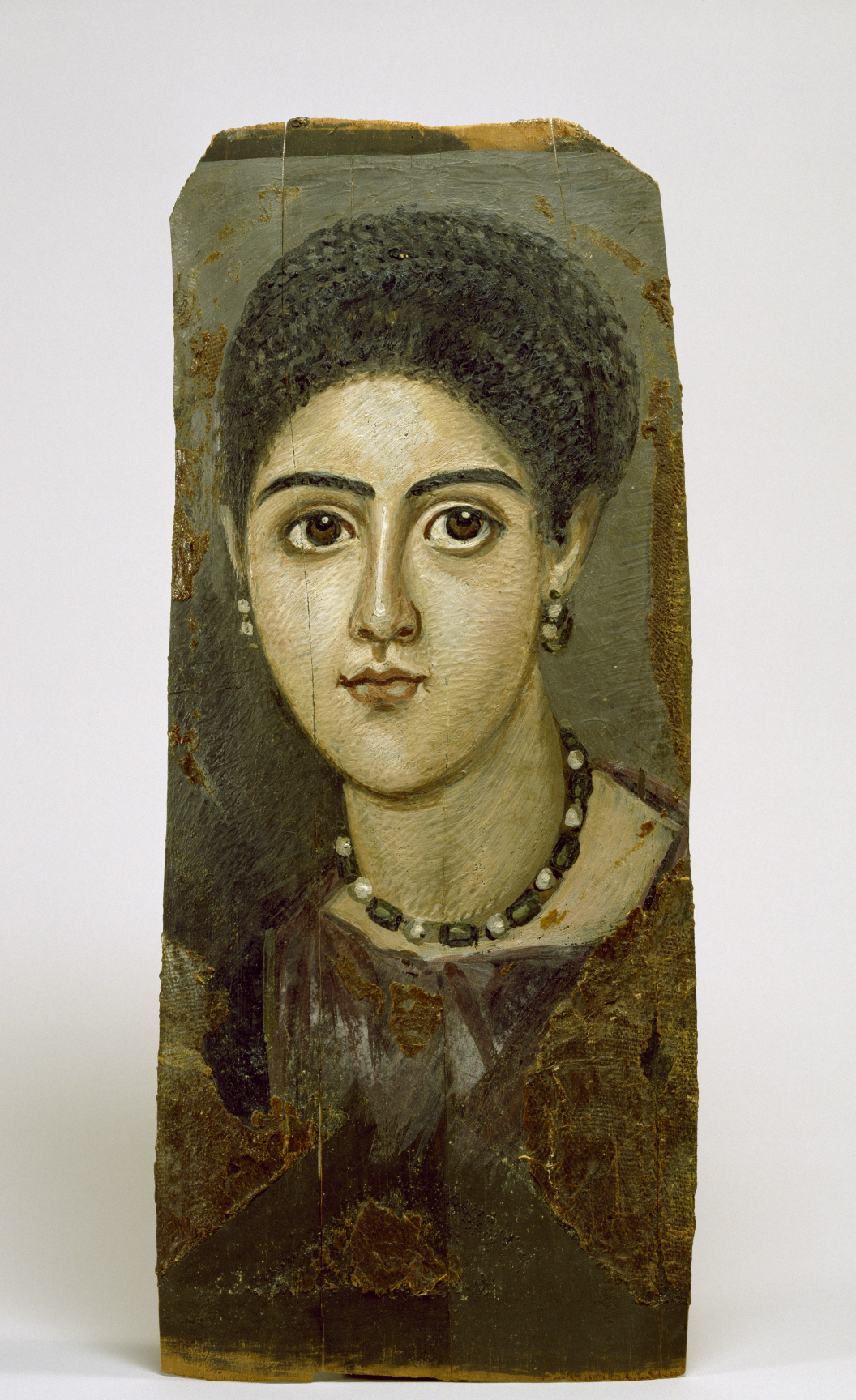 Hairstyles can be used to date female portrait masks. Here, the braids wound over the top of the head place the mask close to the period of the Roman emperor Trajan (AD 98-117). The painting of a portrait was an occasion for all finery to be displayed, and this woman is seen wearing a pearl and emerald necklace and earrings.